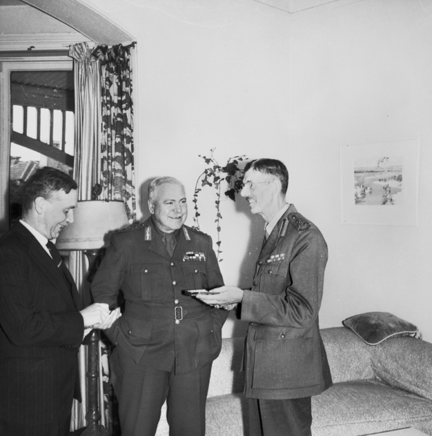 A black and white photograph of General Sir Thomas Blamey with Brigadier Arthur Blackburn VC at General Blamey's home in Melbourne